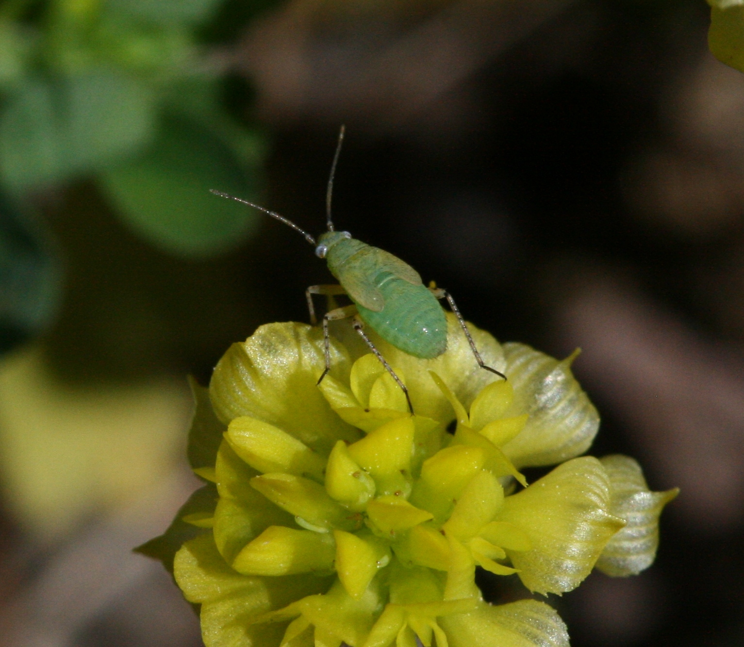 Thanks to Ashley_Wood for the id Cowden Ponds, Midlothian, Scotland